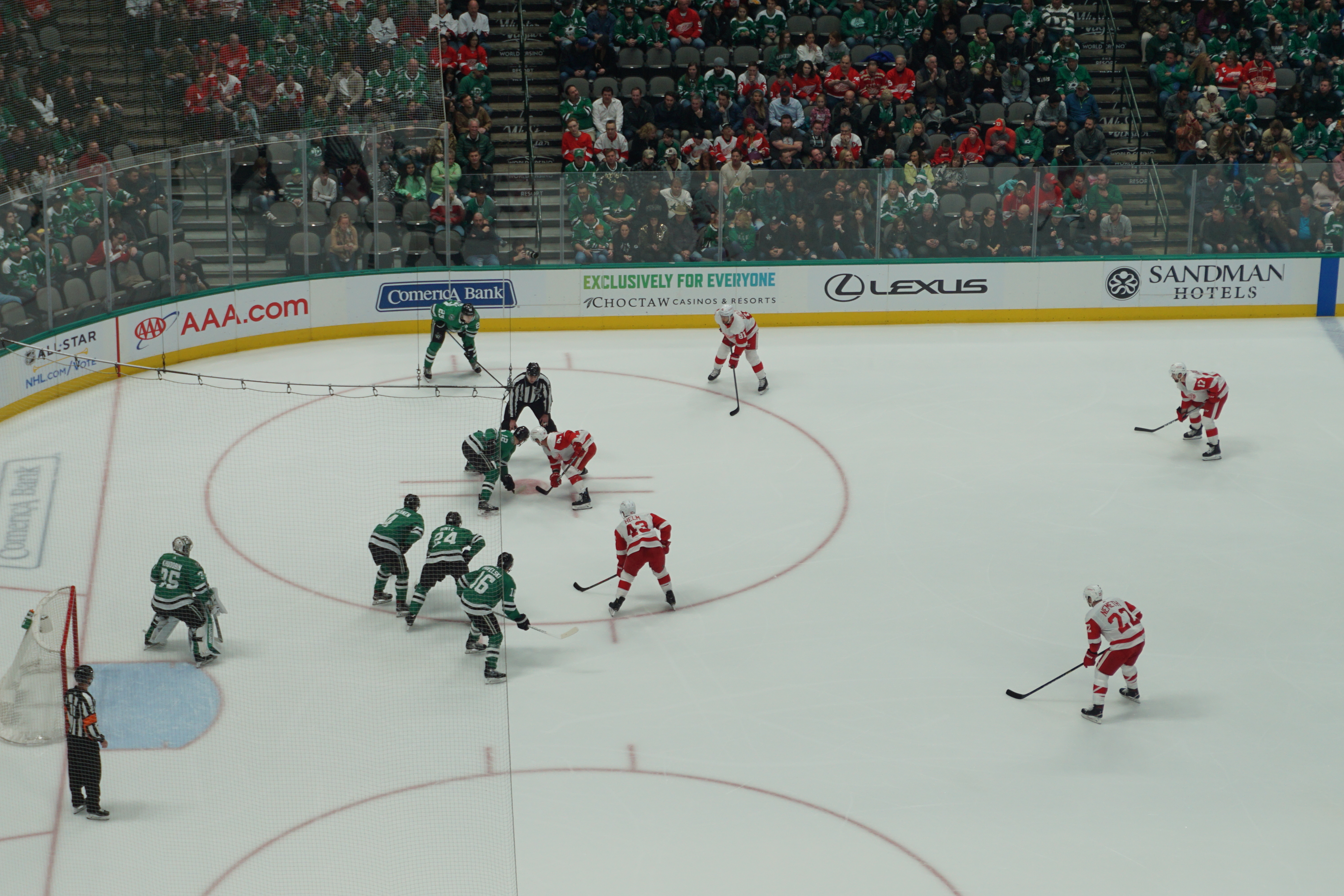 In-game action during the Detroit Red Wings vs. Dallas Stars game at American Airlines Center in Dallas, Texas (United States). Dallas won 4–1.